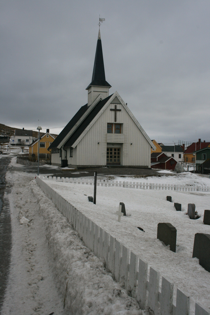 Church in Bugøynes, Finnamrk, Norway